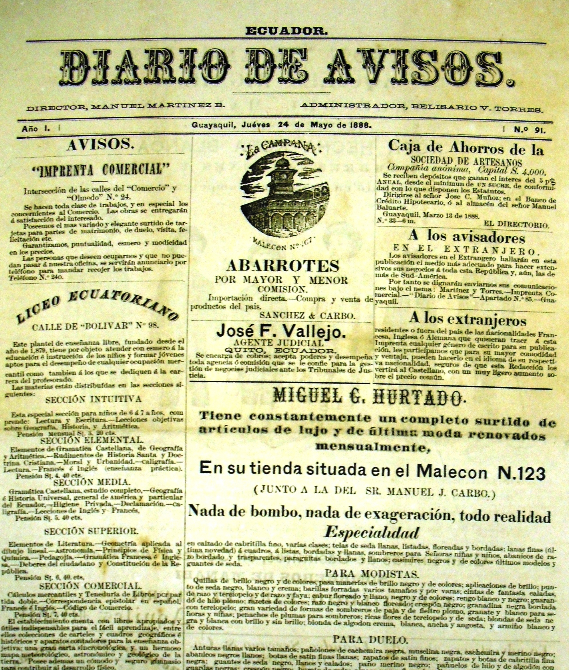 The paper from May 24th 1888, Diario de Avisos Journal